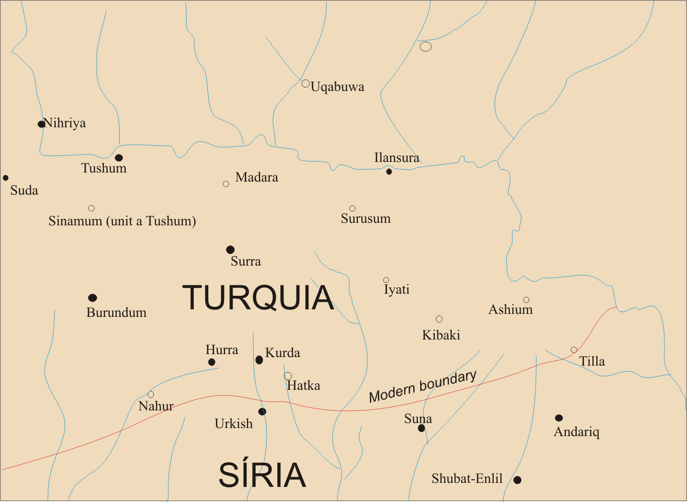 Some vassal states of Zimrilim